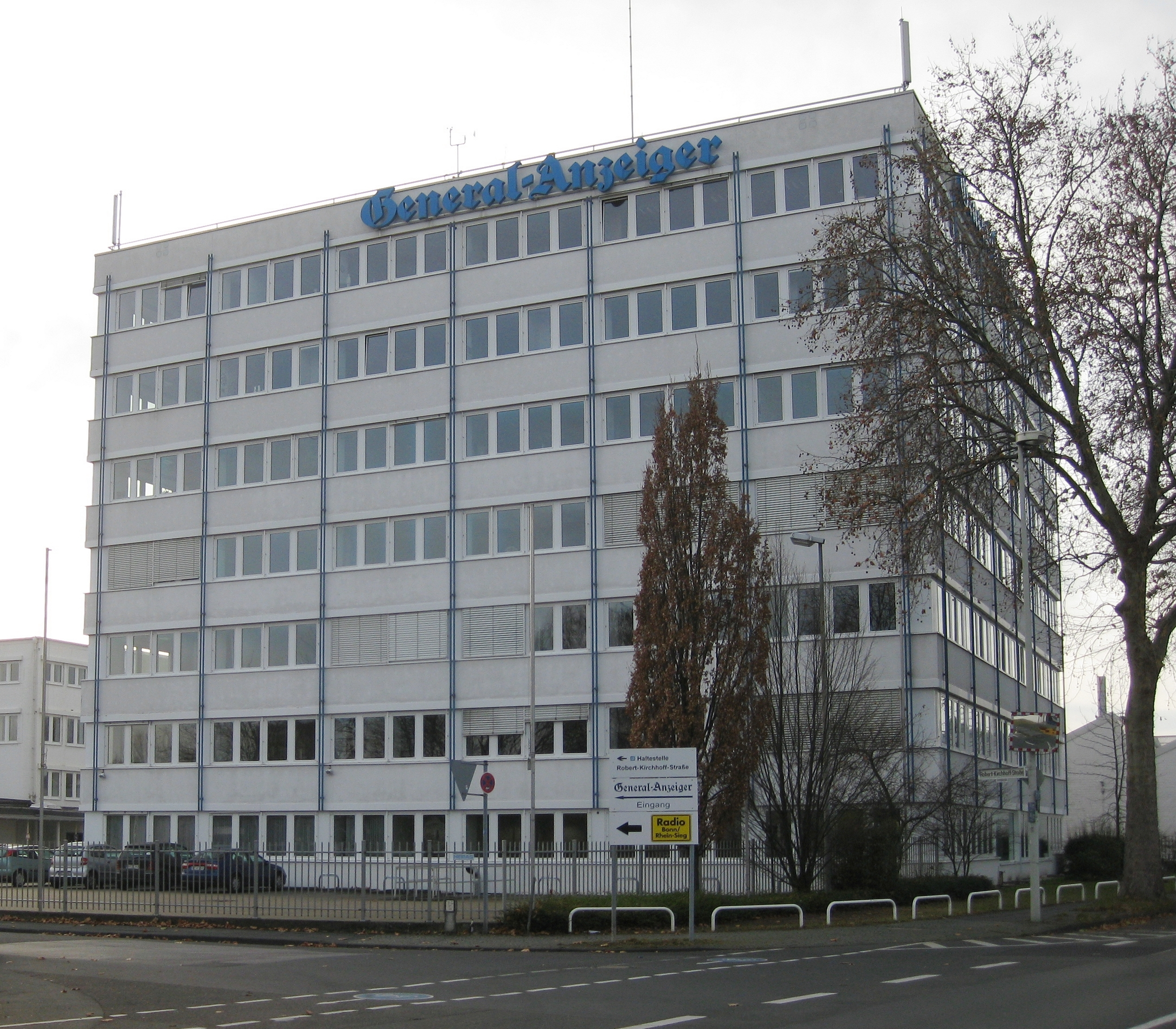 Germany, Bonn: company site of printing and publishing company Bonner Zeitungsdruckerei und Verlagsanstalt H. Neusser GmbH; Editorial building e.g. the daily newspaper General-Anzeiger; also as an editorial office and studio of the local radio station Radio Bonn/Rhein-Sieg (formerly based in Bonn-Beuel, Brückenforum).